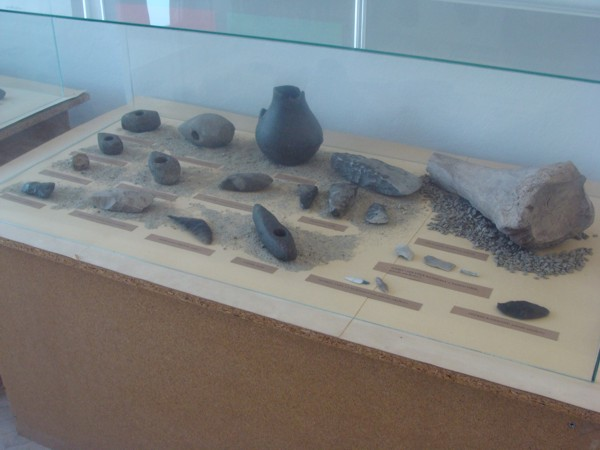 "Archaeology and the surrounding Podegrodzie" - exhibition in The Lach of Sącz Ethnic Group Museum